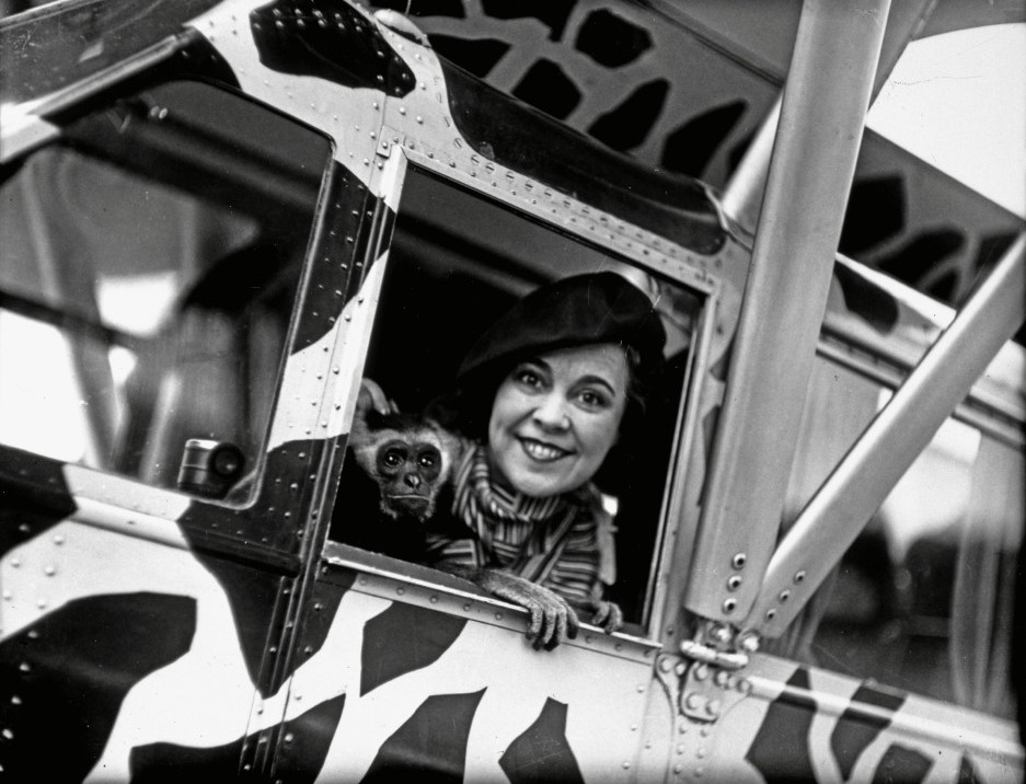 Accession Number: 1985:1268:0010 Maker: Martin & Osa Johnson Title: Osa and airplane Date: ca. 1918-1936 Medium: negative, gelatin on glass Dimensions: 3.25x4.25 in George Eastman House Collection